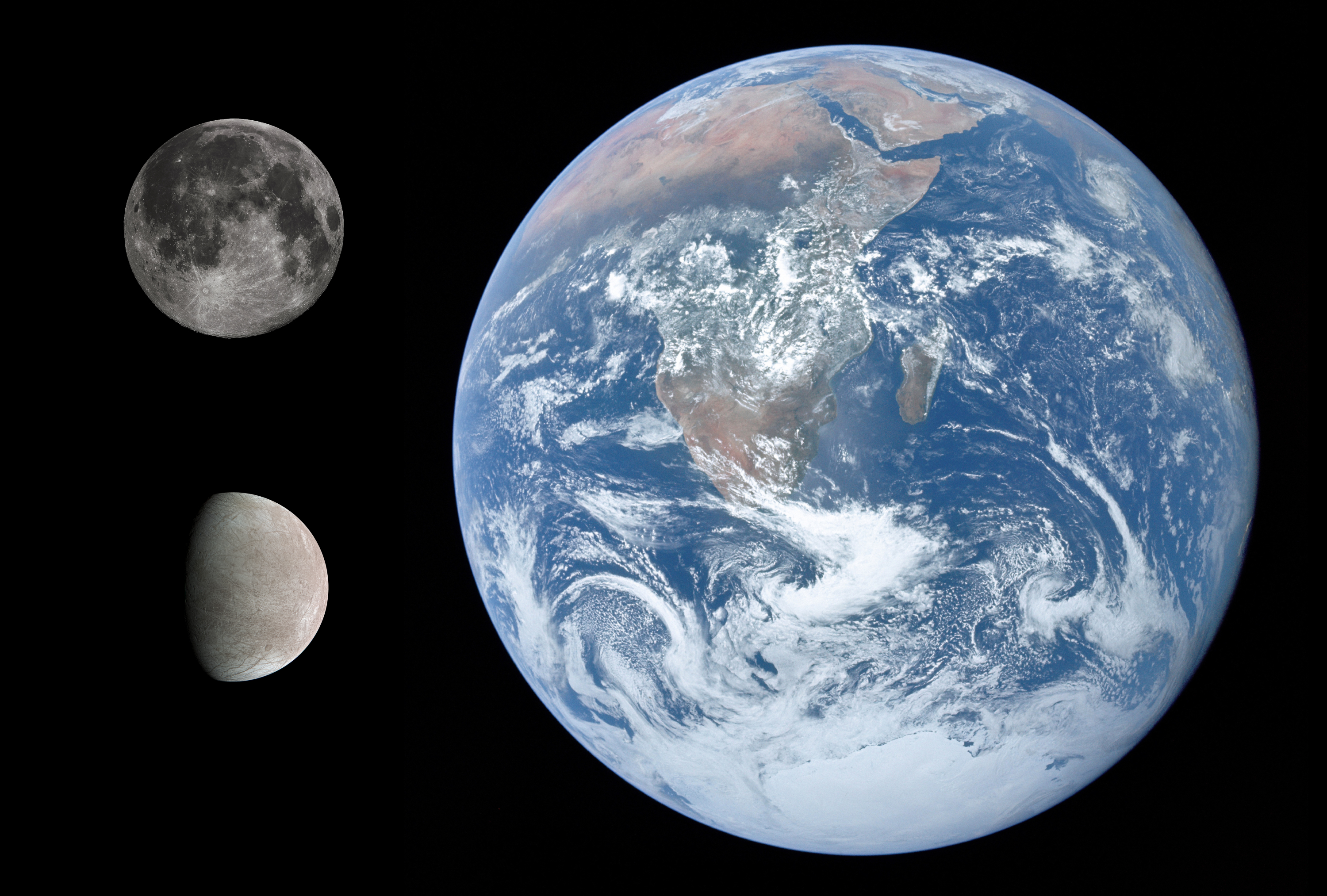 Diameter comparison of Europa, Moon, and Earth. Scale: Approximately 29km per pixel.